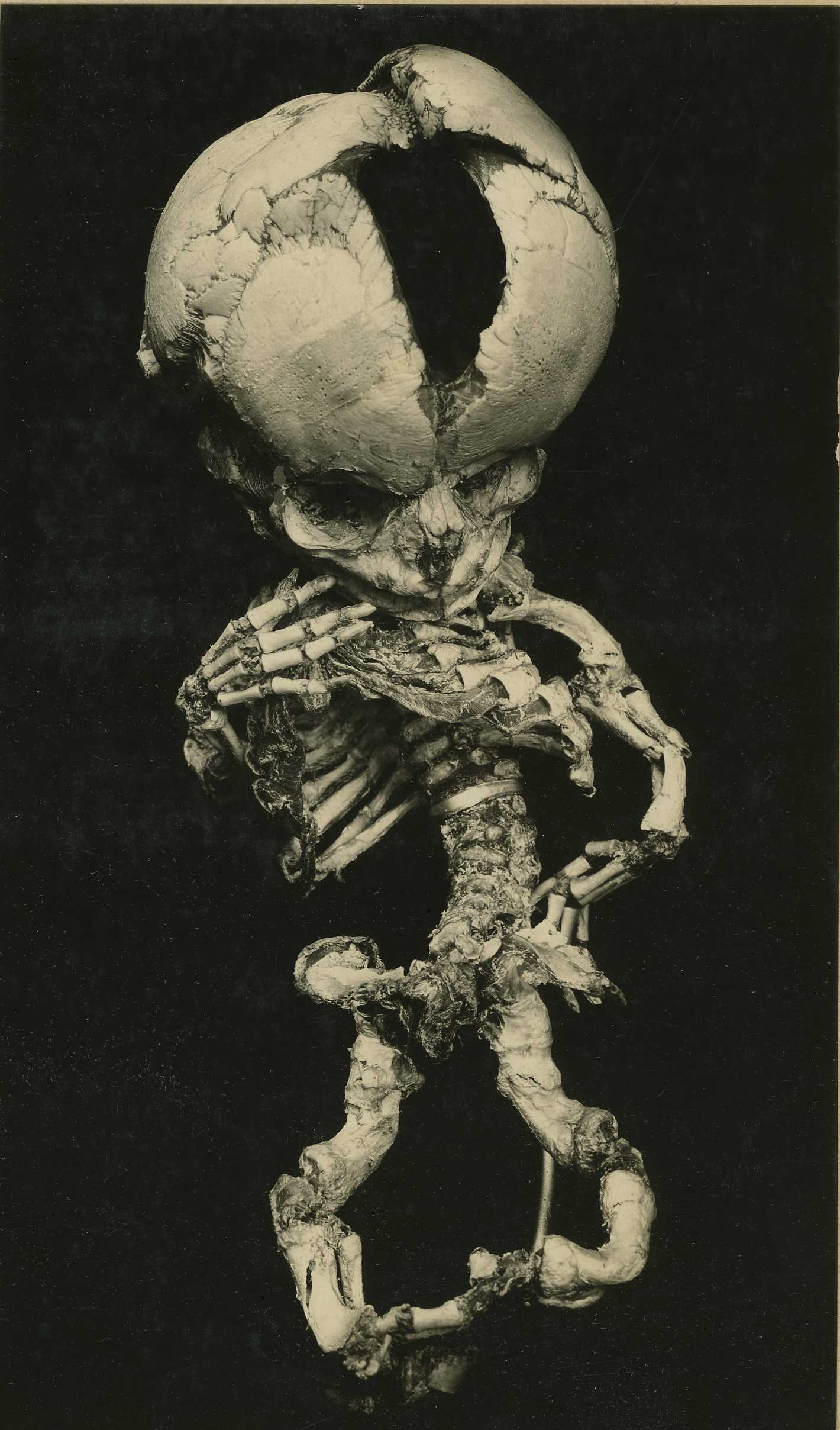 Skeleton. Fetal rickets.